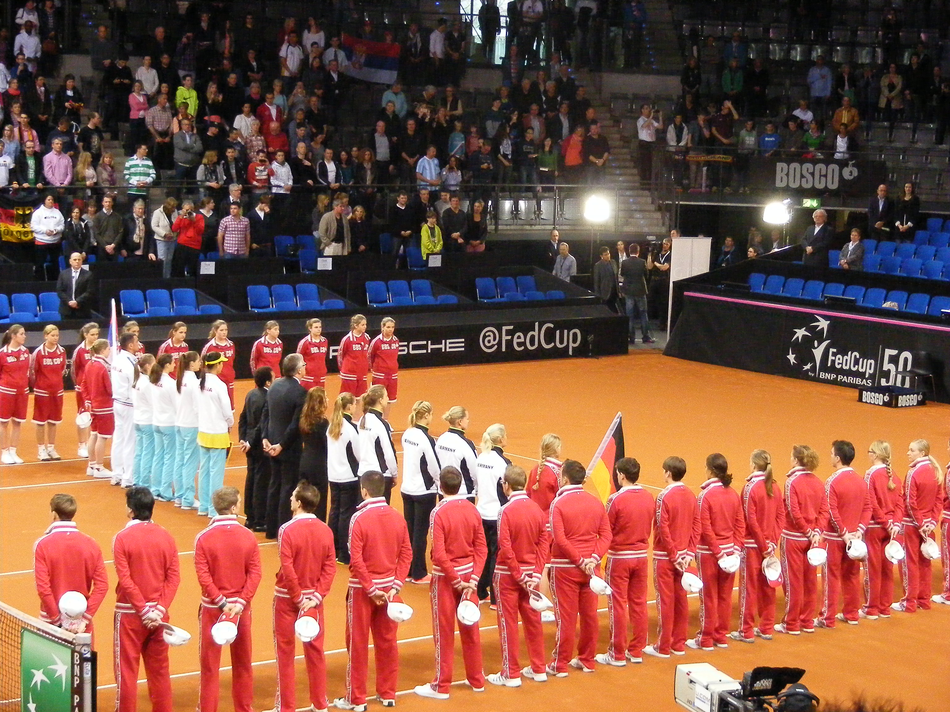 team presentation on FED Cup 2013 Germany vs Serbia